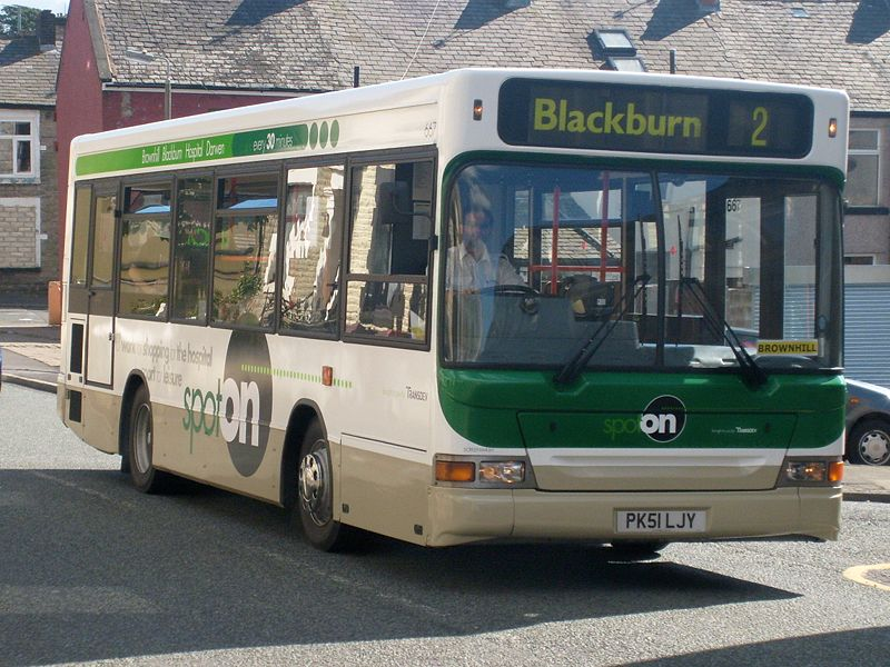 A photo of a Lancashire United Dennis Dart (Mini Pointer Dart) PK51 LJY in Darwen.